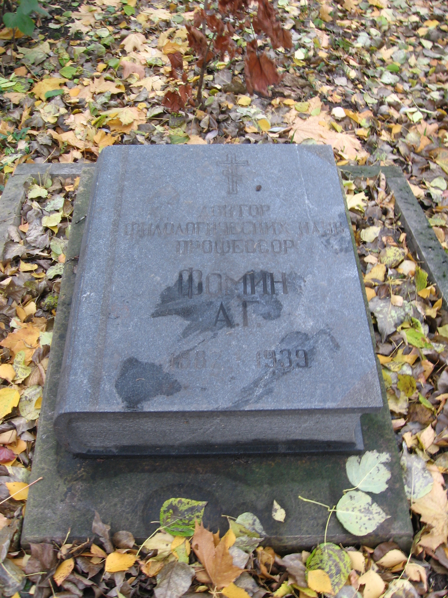 Grave of Alexander Fomin